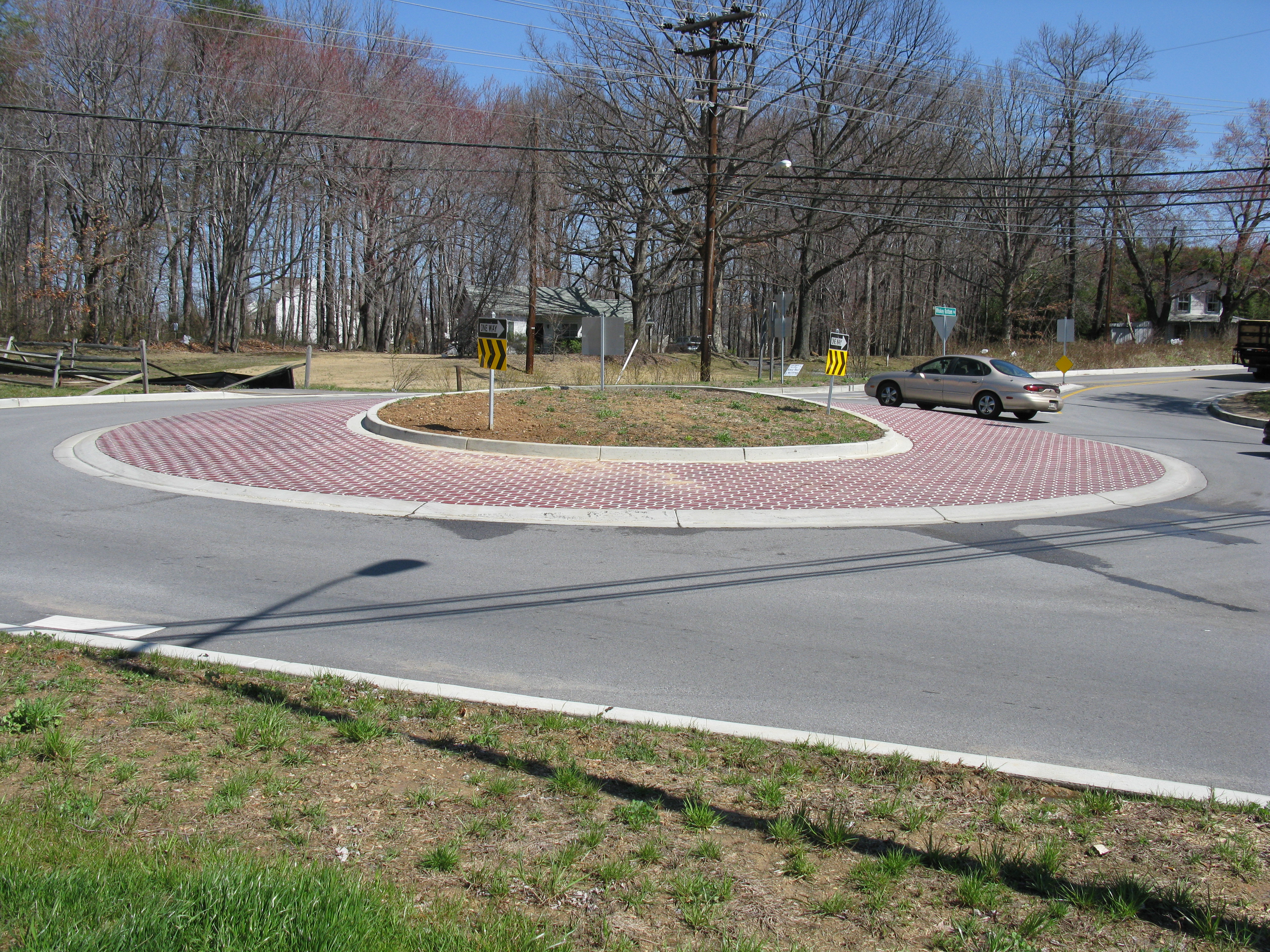 A roundabout along Whiskey Bottom Road at All Saints Road, North Laurel, MD